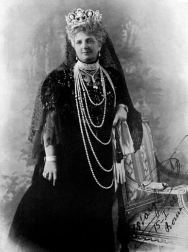 Margherita of Savoy-Genoa, dowager queen of Italy